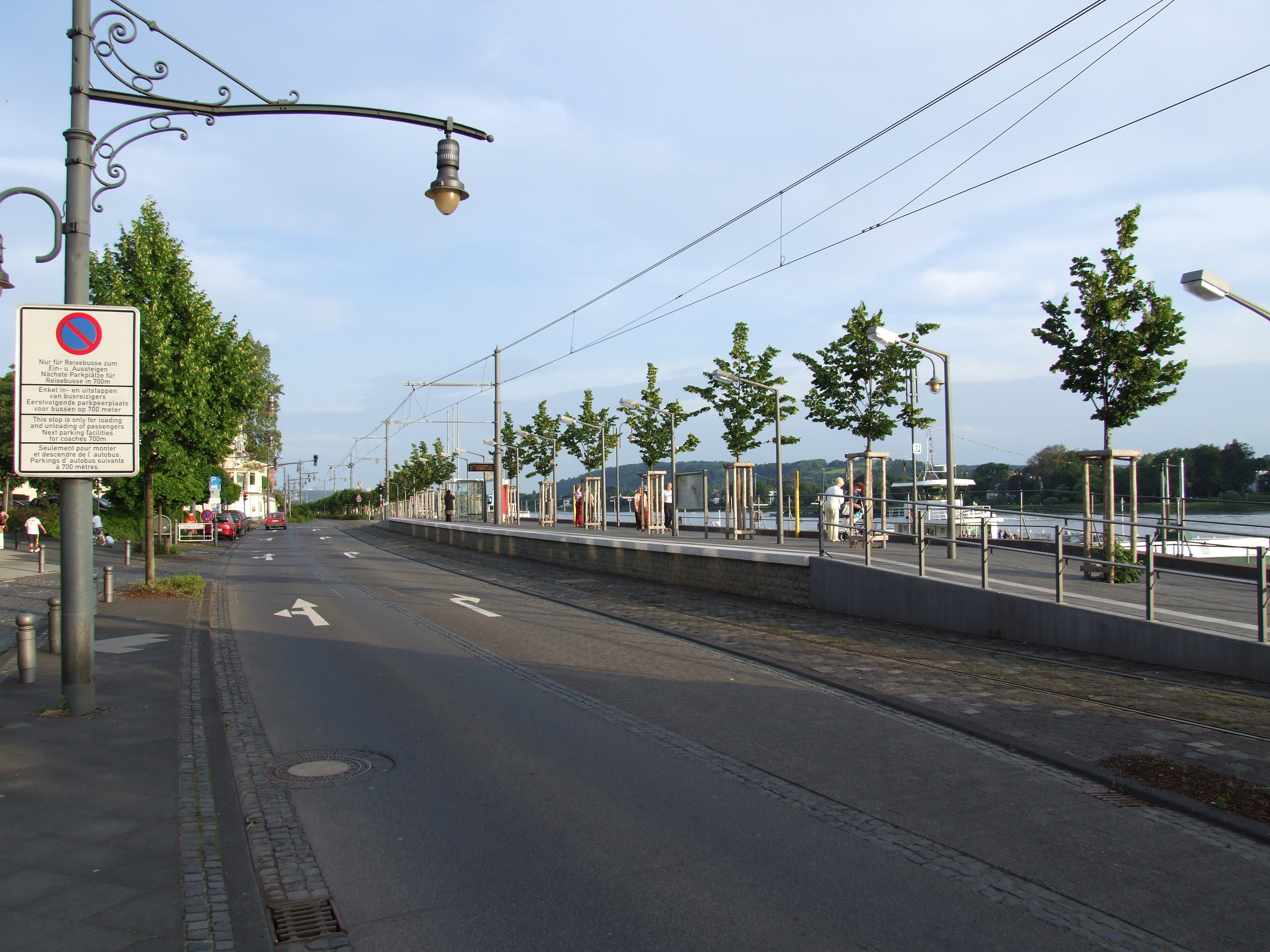 City railway stop Königswinter Fähre – Sea Life Aquarium in Königswinter